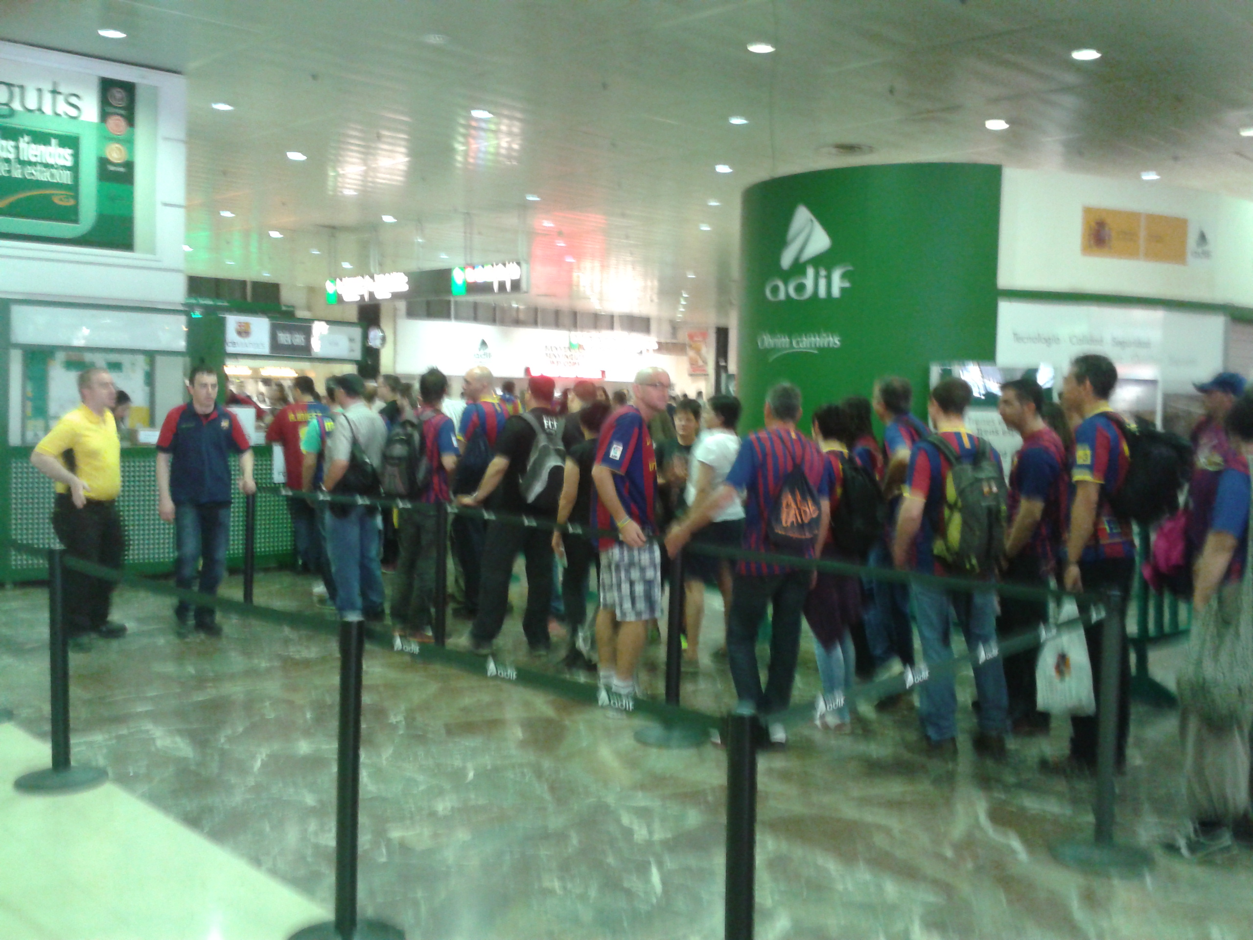 Barça supporters, few minutes before to take the train to Madrid in order to assist at 2012 Final Copa del Rey